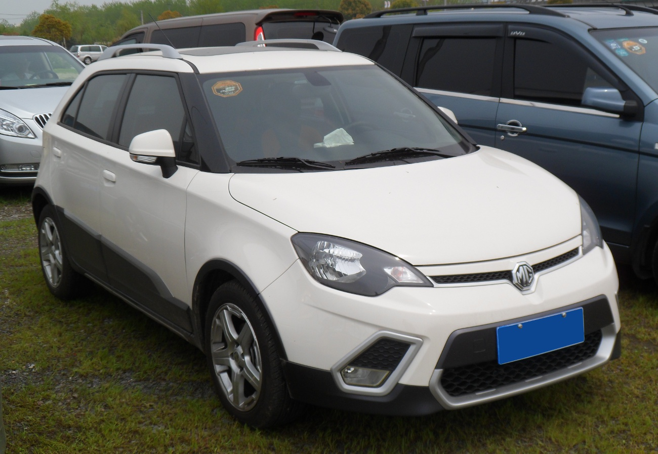 MG 3 Xross photographed in Shanghai, China.